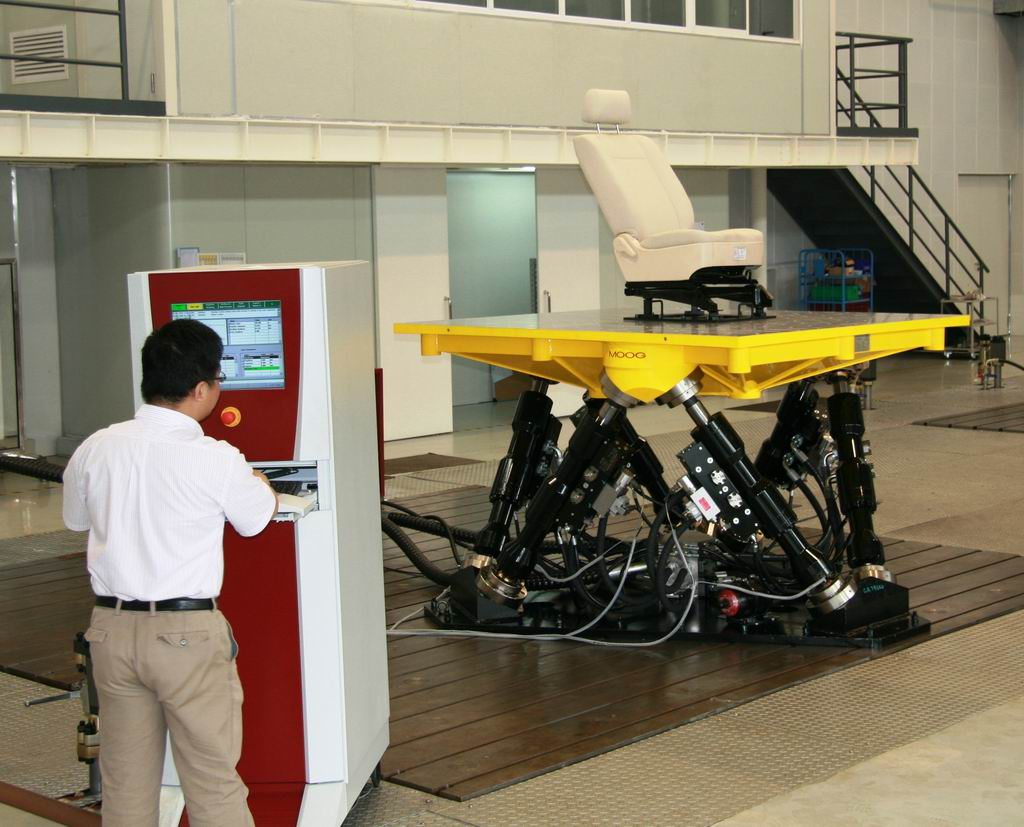 Multi Axis Shaker Table - Moog MAST 66 system